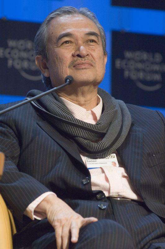 DAVOS/SWITZERLAND, 26JAN07 - Abdullah Ahmad Badawi, Prime Minister of Malaysia captured during the session 'ASEAN's 40 Years - A New Future' at the Annual Meeting 2007 of the World Economic Forum in Davos, Switzerland, January 26, 2007